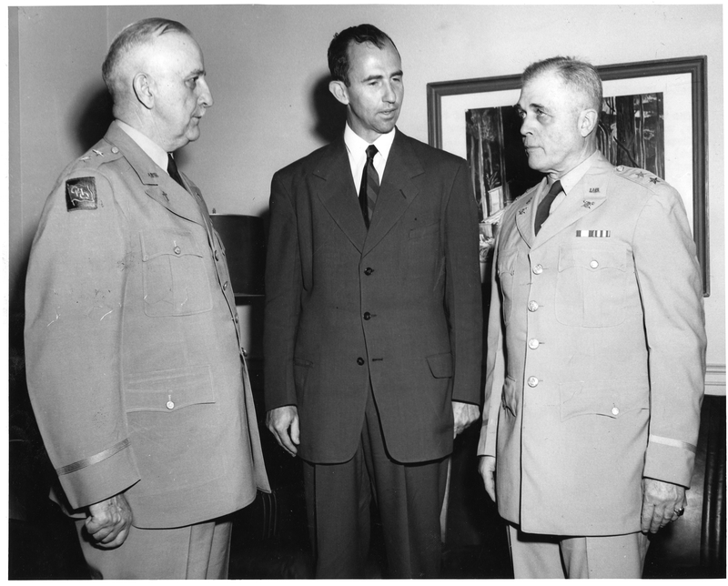 Secretary of the Army Frank Pace, Army Major General Roy Parker (chaplain) and Major General Louis Craig (Inspector General) on the occasion of the generals' retirements.